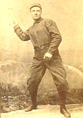 Cropped image of Billy Shindle from 1887 Old Judge Baseball Card. Billy Shindle was a major league baseball player in the 1880s. The image was published and distributed in the 19th Century and is in the public domain in the United States.